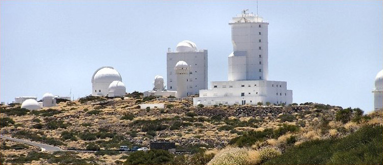 Astronomical Observatories in Izaña, Tenerife (Canary Islands, Spain).